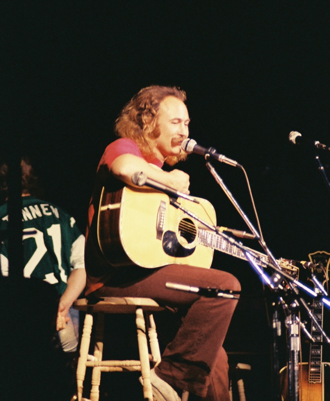 Crosby, Stills, Nash & Young at concert, August, 1974